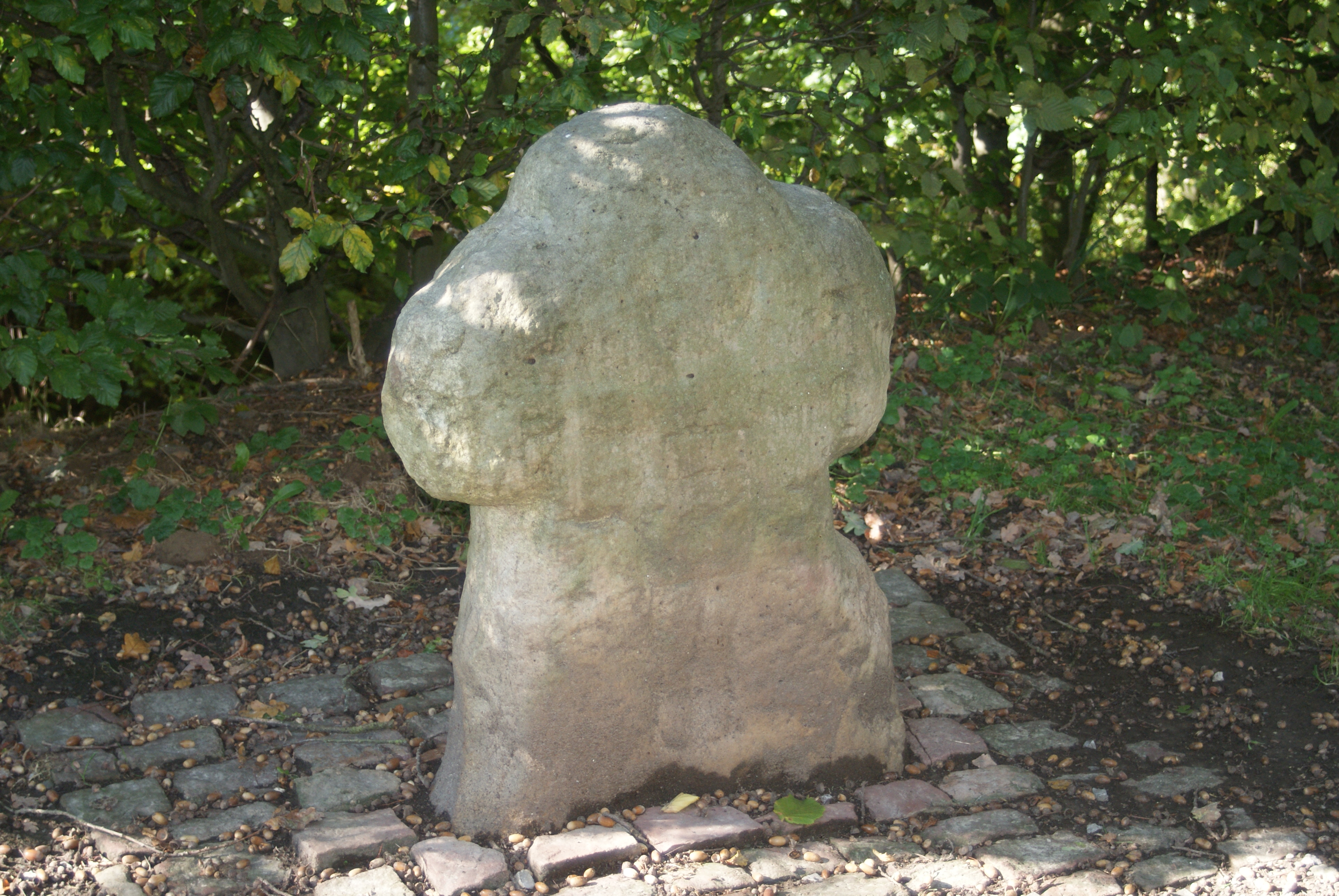 Taken in Wellerode.